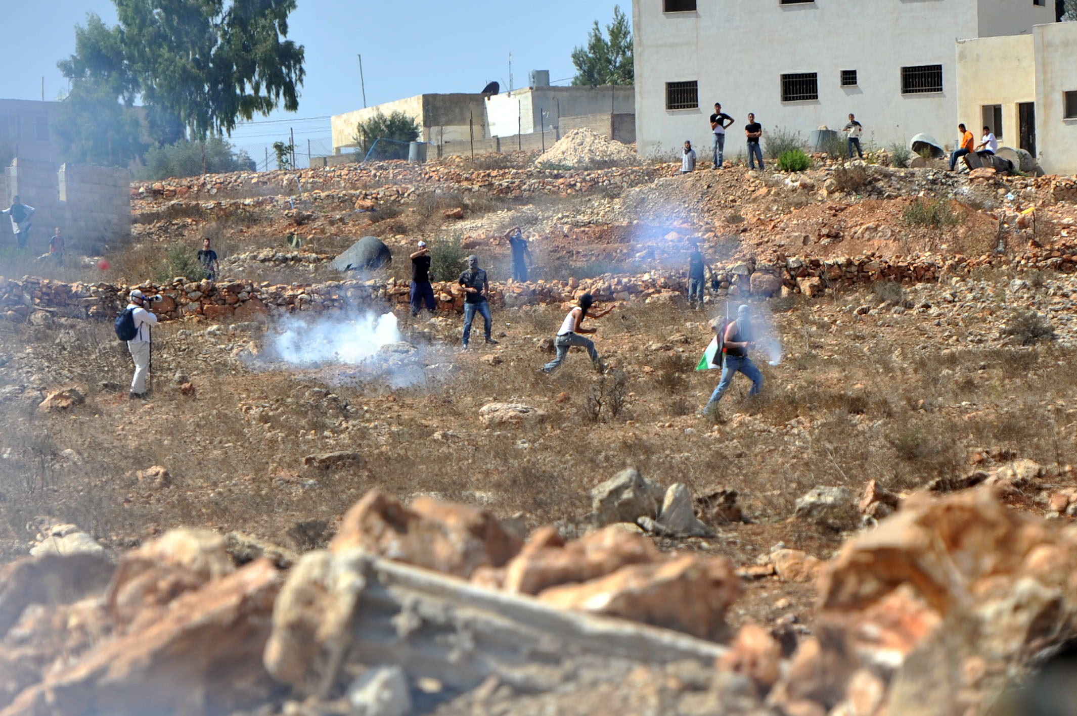 Violent rioters throwing rocks at security forces near Nabi Saleh. The protests in Nabi Saleh often turn violent and security forces have to use riot dispersal means.